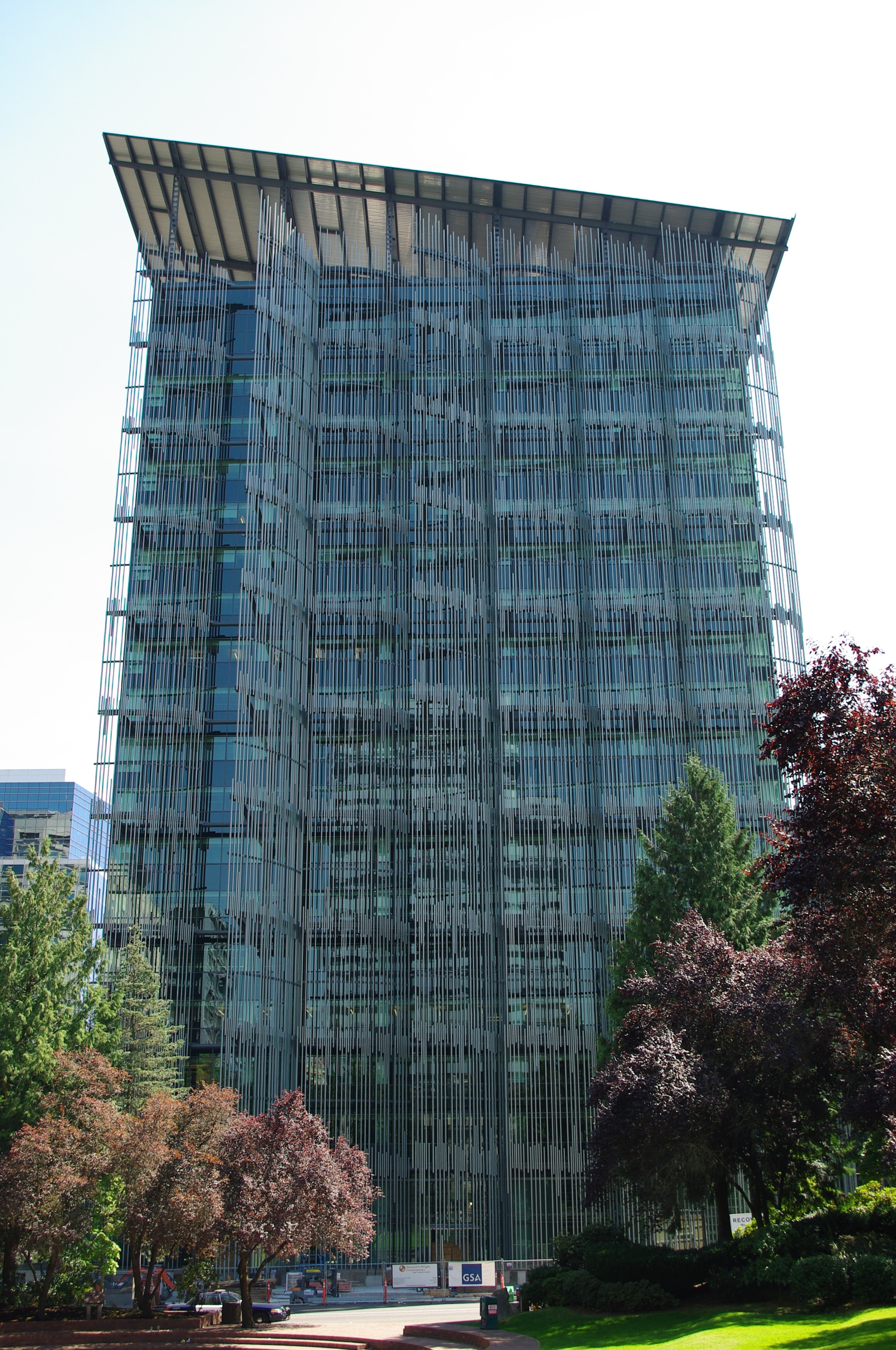 The Edith Green – Wendell Wyatt Federal Building near completion of renovations.